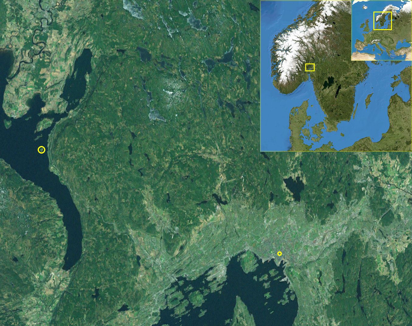 Satellite map of the Oslo area with pointers to the Government quarter (Regjeringskvartalet) in Oslo, and Utøya island. Inline images showing relative locations in Western Europe and Norway.